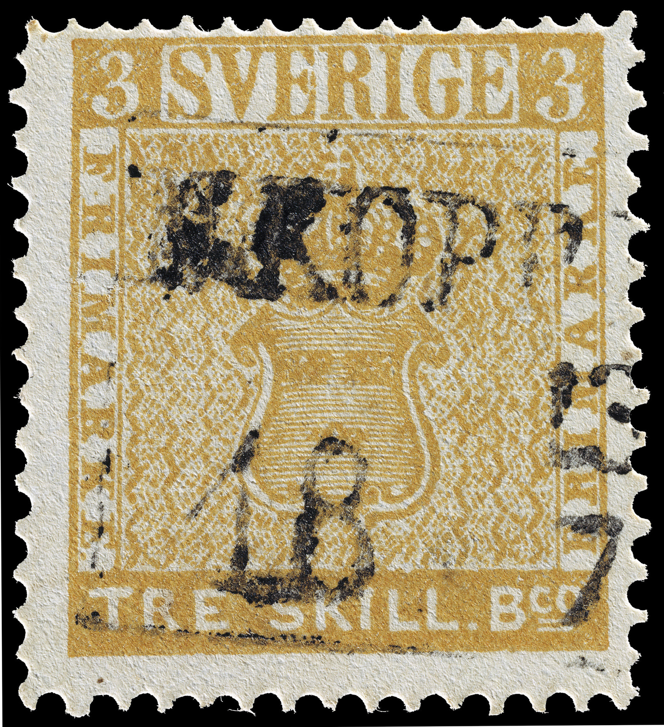 Yellow 3 skilling of Sweden, 1855, one of the world's most expensive stamps. A unique example of a colour error.